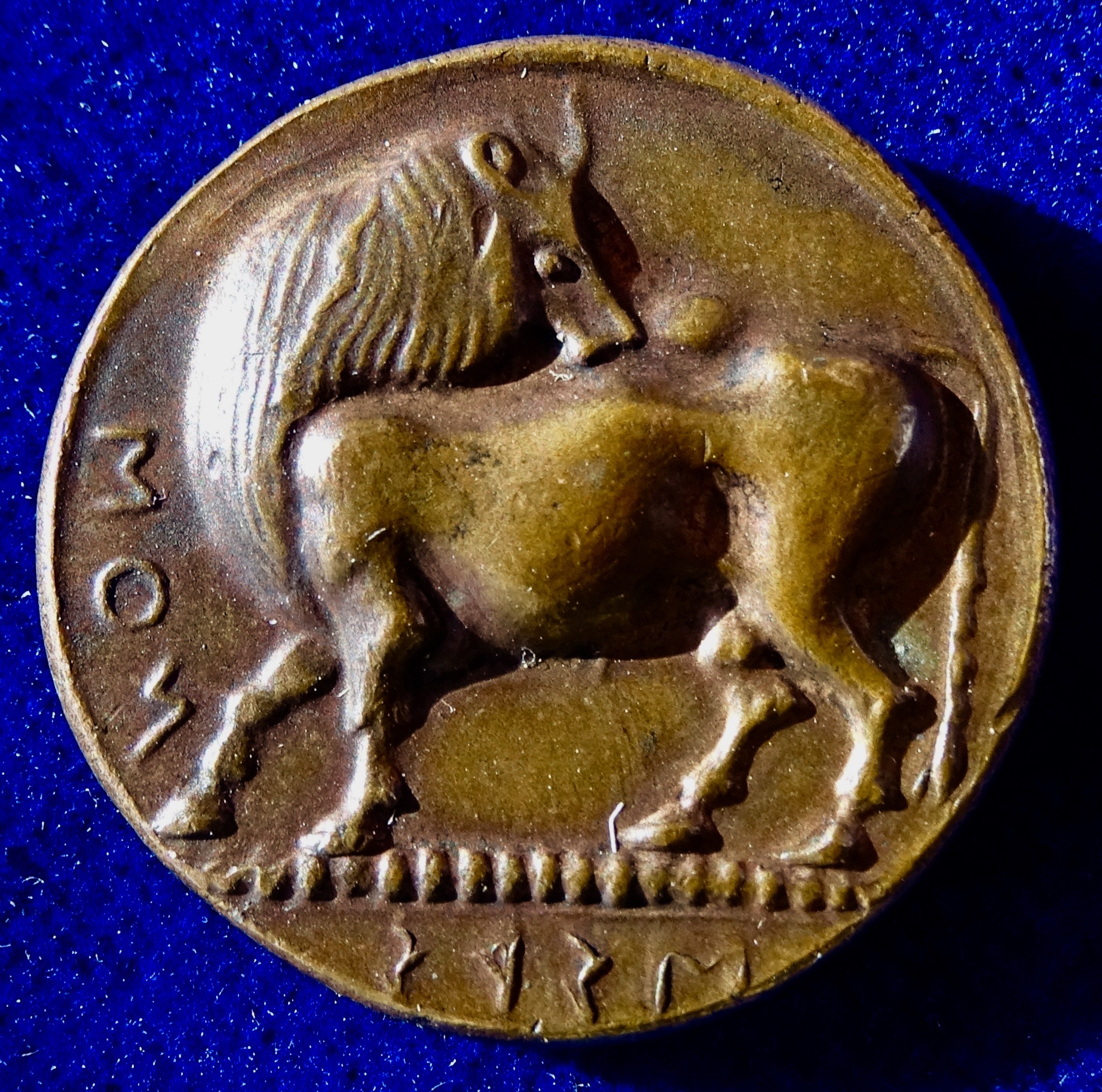 Lucania (southern Italy), Ionian colony Siris, Tetradrachm about 520 B.C. Original creation by Carl Wilhelm Becker. Siris was a Greek colony which at one time attained to a great amount of wealth and prosperity; however, its history is extremely obscure and uncertain. D. = 28 mm. 18.69 g Ag Standing Bull l. looking back. In ex and at l.: "MZPZNOM"/ Bull incuse standing r., and looking l. In exergue and at r.: "PVXOEM. Forrer I, p.145, no. 11; Sir George Hill, Becker the Counterfeiter, no. 11. Medallist: Carl Wilhelm Becker, 1771 Speyer - 1830 Bad Homburg, Germany Becker was one of the most skilful counterfeiters of ancient coins of all times. The dies of his Greek counterfeits now belong to the Berlin Bode Museum. The Bode Museum is one of the group of museums on the Museum Island in Berlin. Originally called the Kaiser-Friedrich-Museum after Emperor Frederick III, the museum was renamed in honour of its first curator, Wilhelm von Bode, in 1956. It is part of the Berlin State Museums. In 1999, the museum complex was added to the UNESCO list of World Heritage Sites. Condition: The original silver strike by Becker had been "taken for a drive" with iron fillings in a box attached to the wheel of his carriage. So it looks a bit worn in comparison to the copper strike from the original dies.